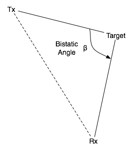 By Paul Howland. Illustration of bistatic angle. By Paul Howland. Illustration of bistatic angle.